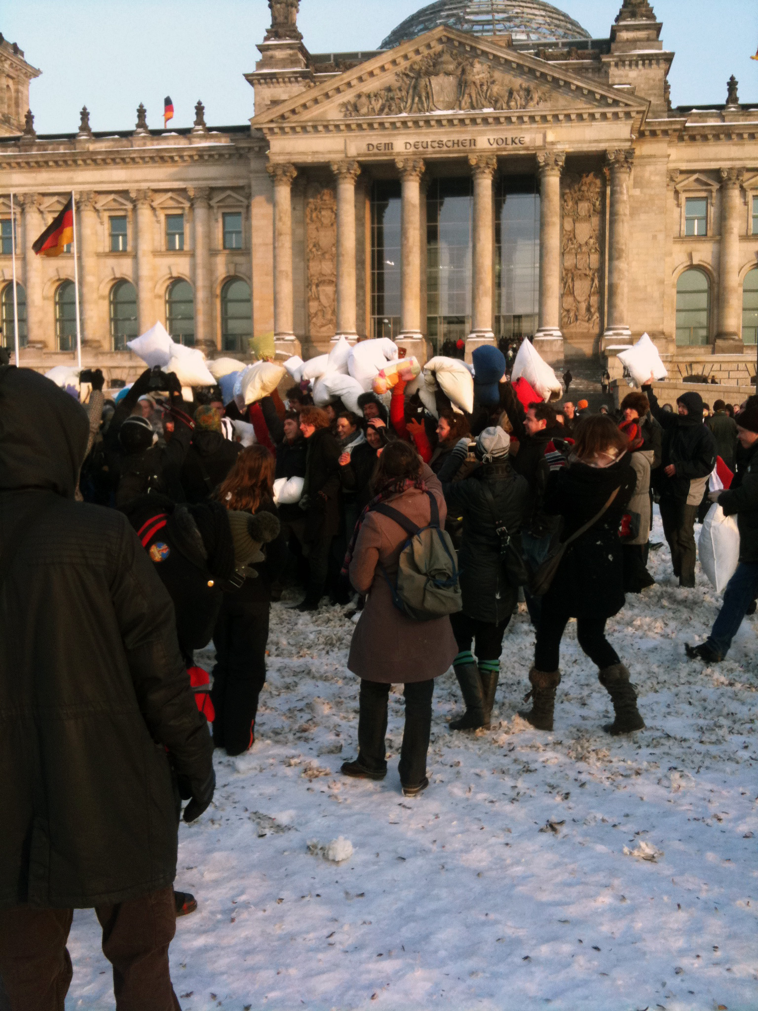 Pillowfight in Berlin, Germany.